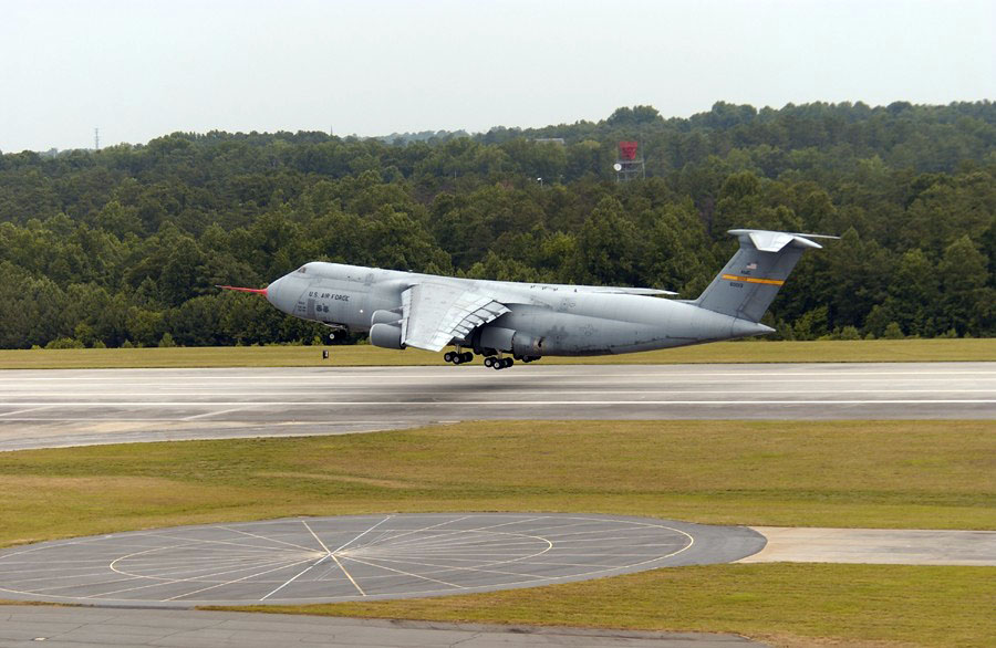 A C-5M Super Galaxy takes off during its First Flight ceremony at Lockheed Martin's Marietta, Ga., plant in June 2006.